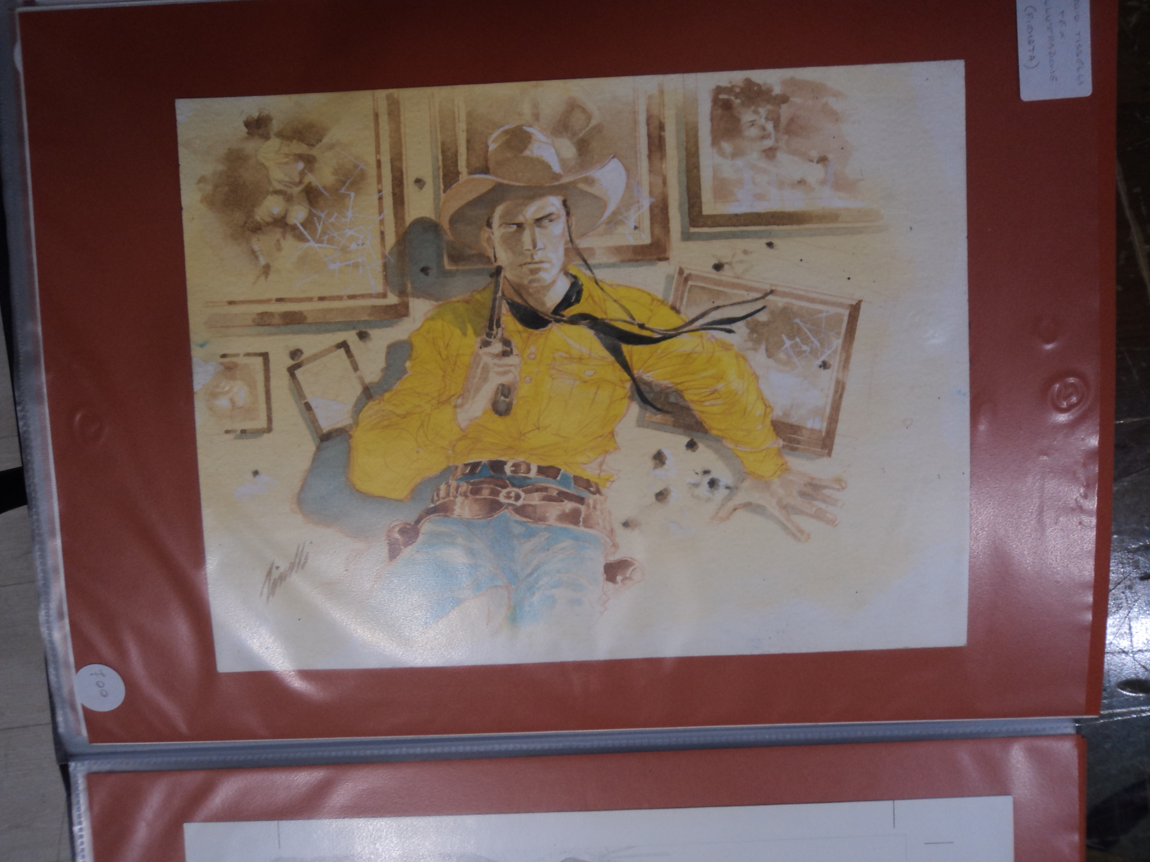 Tex Willer